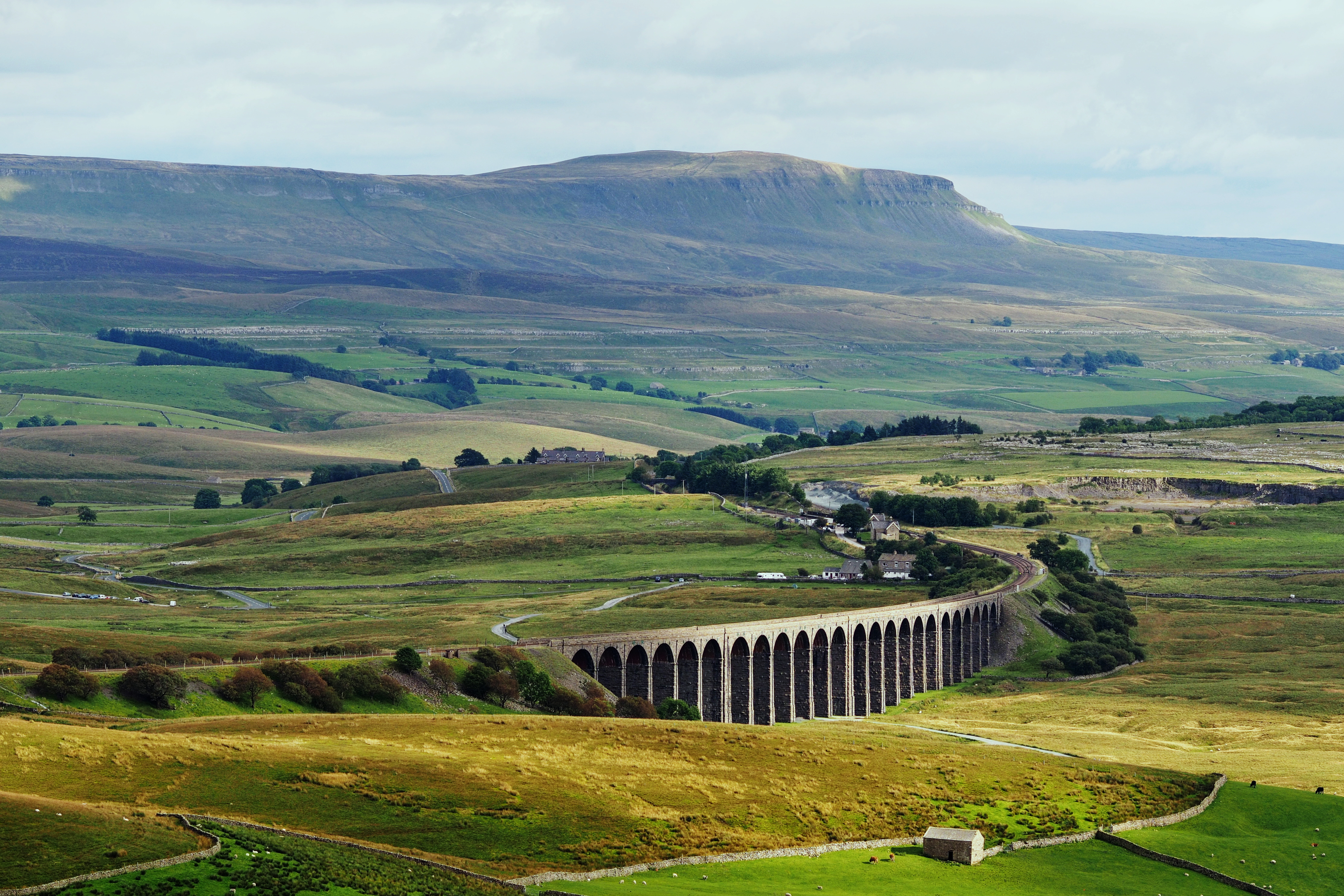 Ribblehead Viaduct as seen from the north